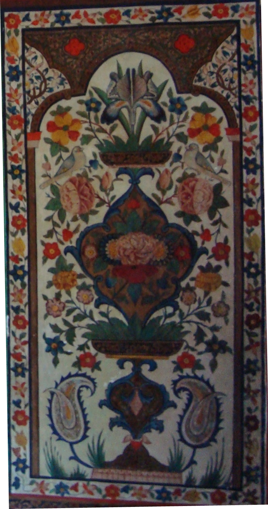 Paintings on the wall of Khan palace in Shaki (Azerbaijan)